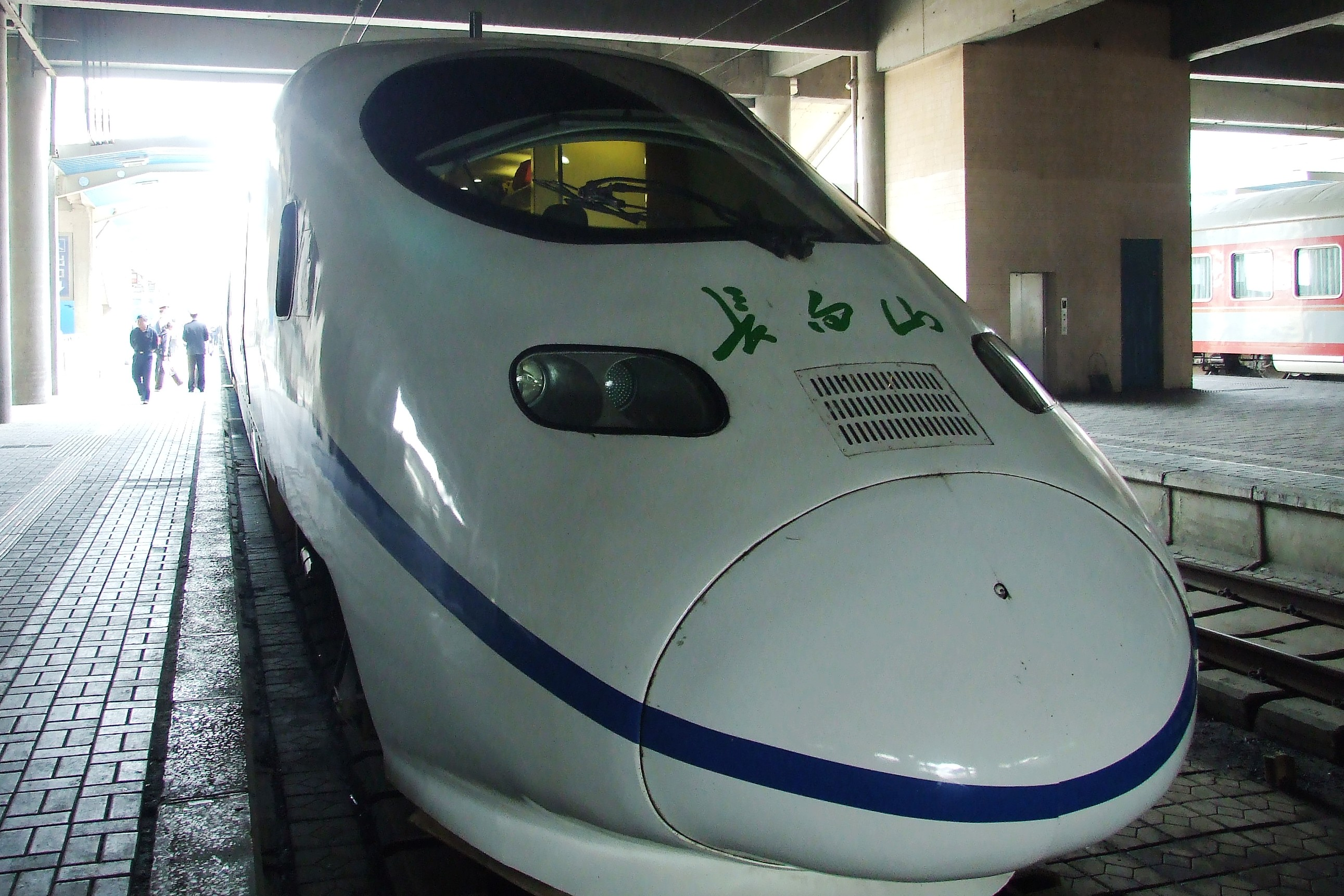 Changbaishan electric multiple units of China 中文（中国大陆）: 长白山号电动车组车头部分